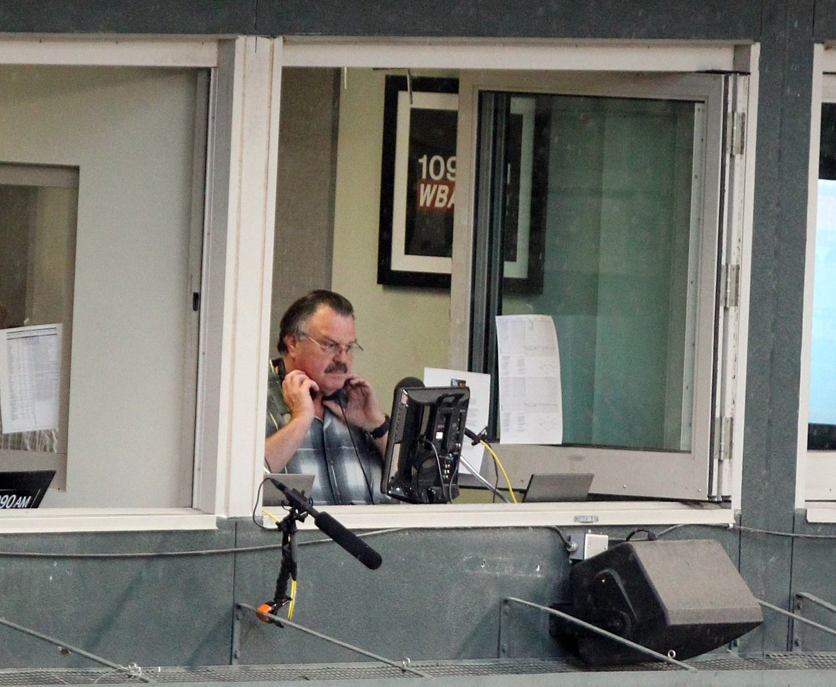 Tampa Bay Rays at Baltimore Orioles June 10, 2011